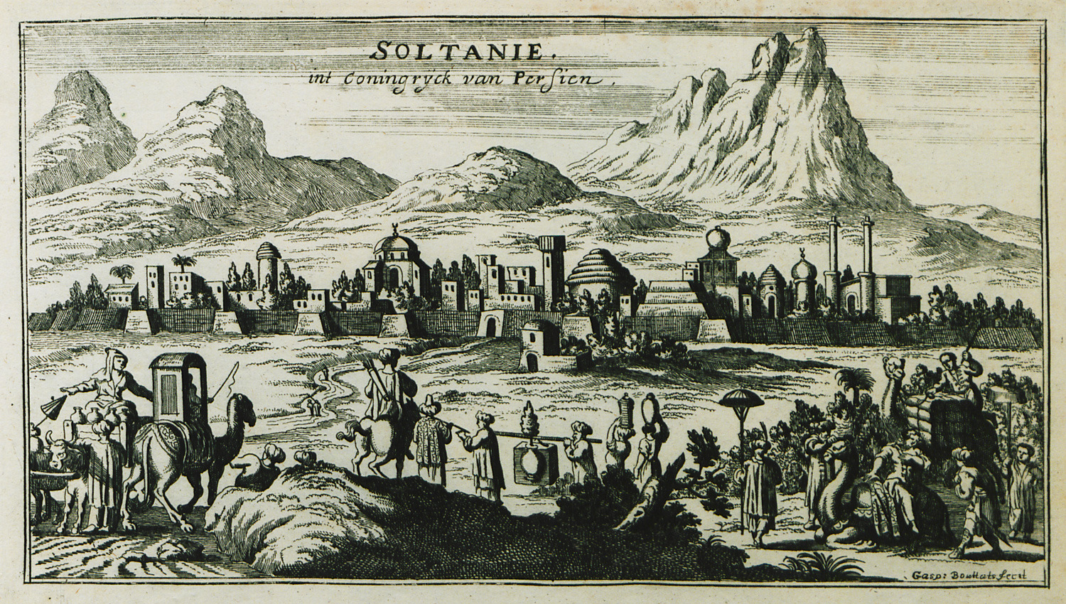 Jacob Peeters. Description des principales villes, havres et isles du golfe de Venise du coté oriental. Comme aussi des villes et forteresses de la Moree, et quelques places de la Grèce, Antwerp, Sur le marché des vieux Souliers, 1690.